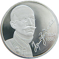 ukr. writer, Yury Fed'kovych, coin